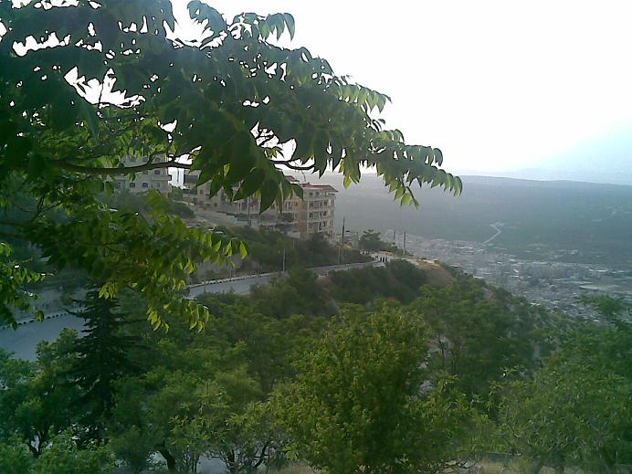 Typical view of a field in the valleys surrounding Idlib.